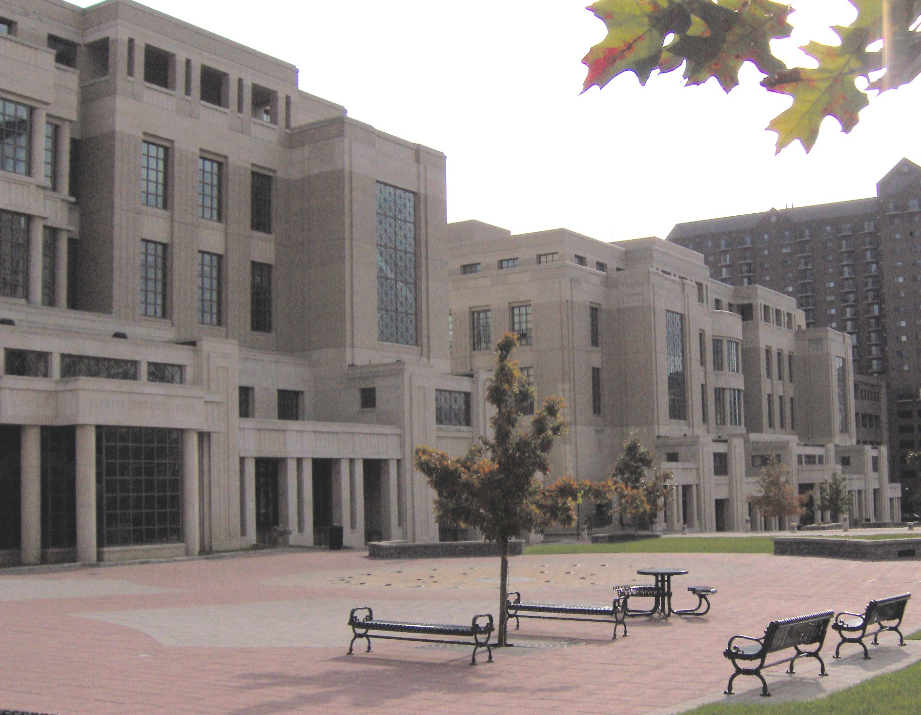 Robert F. Stephens Courthouse Complex located in the city of Lexington, Kentucky, the county seat of Fayette County, Kentucky, on North Limestone Street between Main and Barr streets.